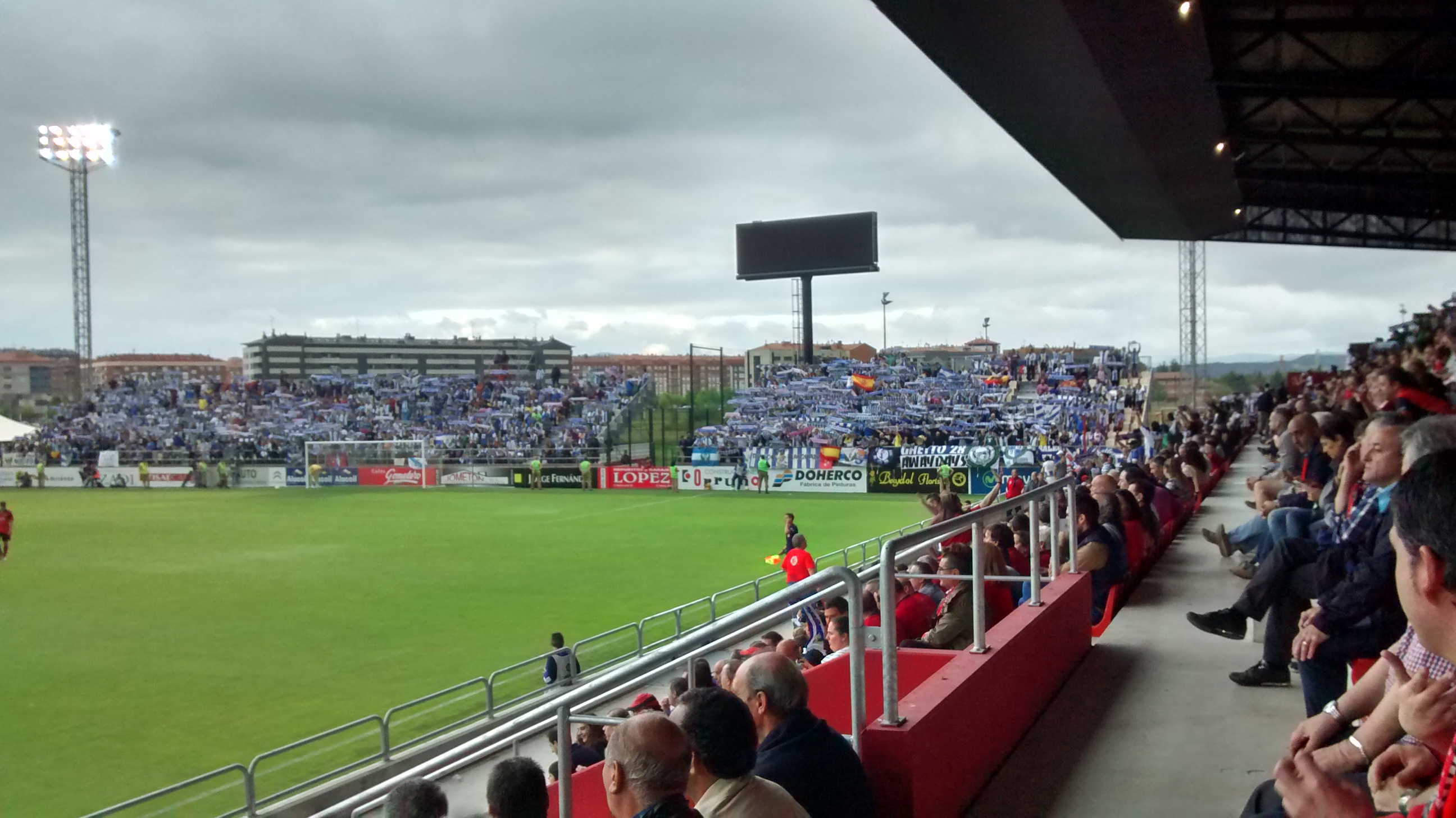 CD Leganés fans in Mirandés 0:1 Leganés, 4th June 2016. Promoted to Primera División